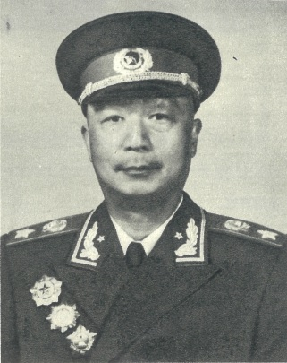 Nie Rongzhen (simplified